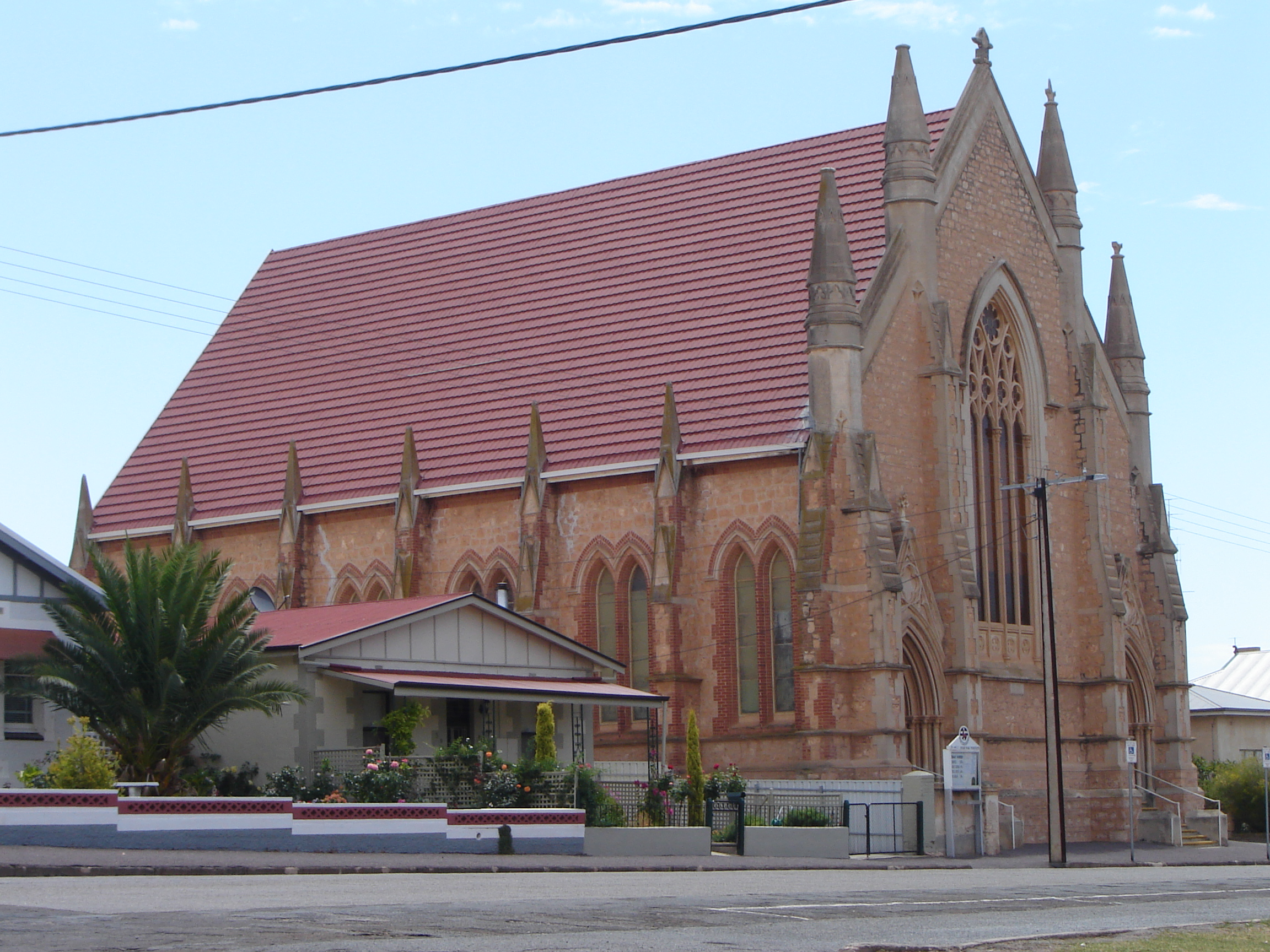 Church in Moonta. Photo by Frances76.